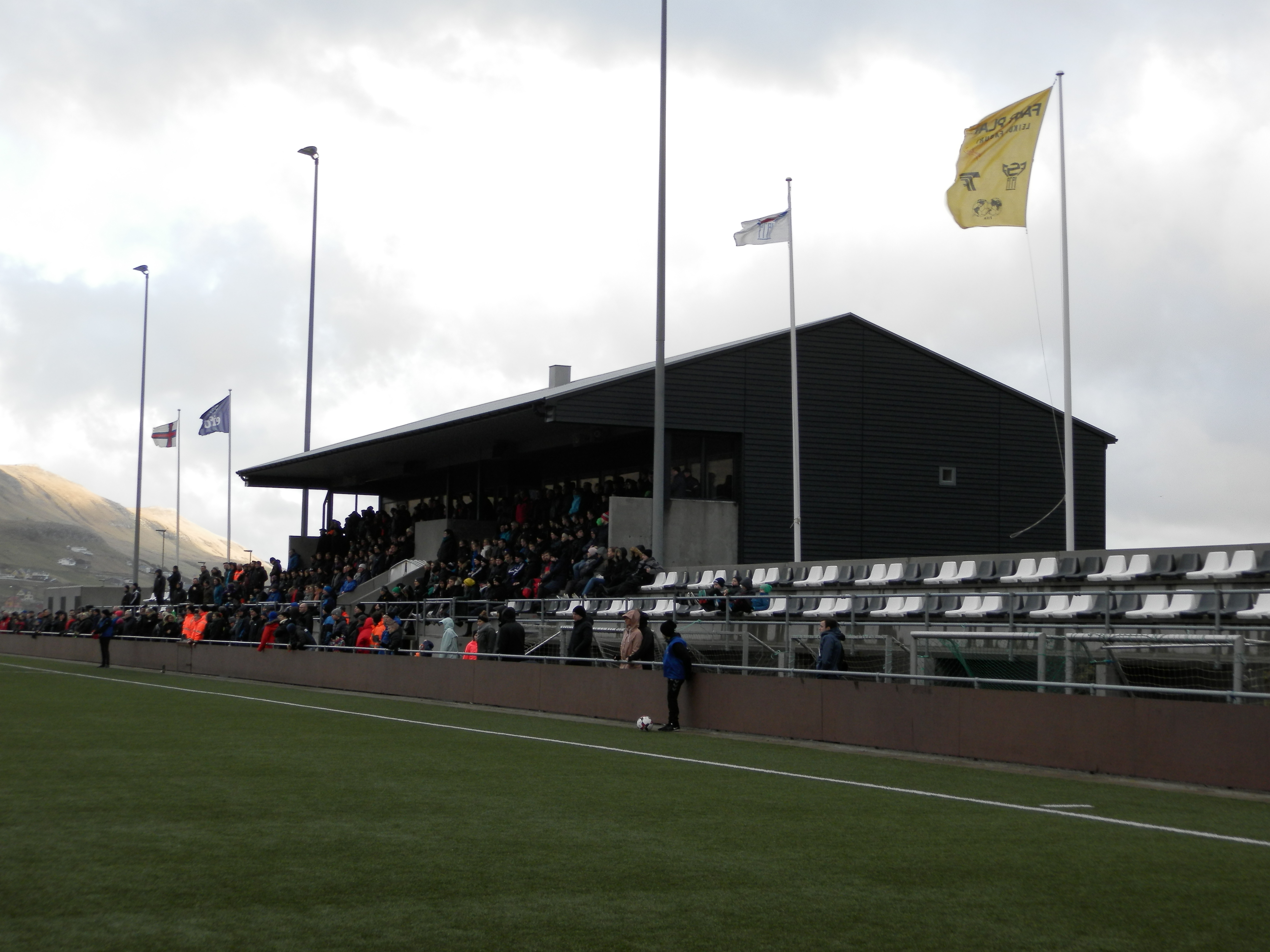 The stadium of TB Tvøroyri from 2012 until 2016. In 2017 it is the home stadium of the new Suðuroy club, which is a co-operation between the three football clubs from the island of Suðuroy: TB Tvøroyri, FC Suðuroy and Royn Hvalba.